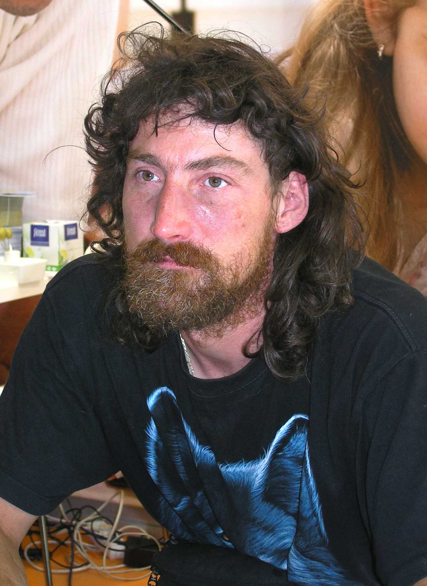 Rudolf Desensky, dog psychologist and writer, at the Book Fair in Ostrava, Czech Republic